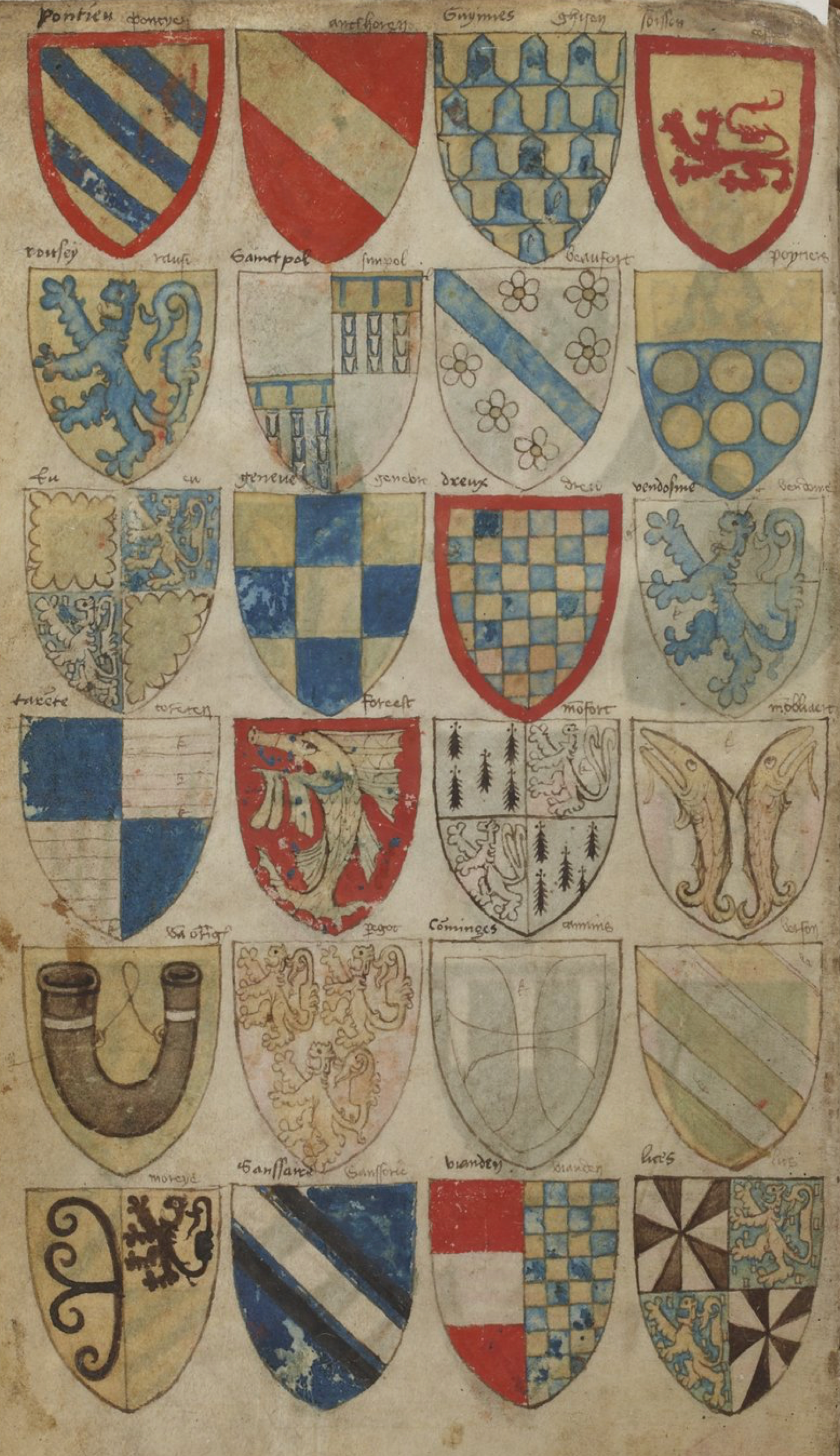 Folio 1v from Armorial Bellenville